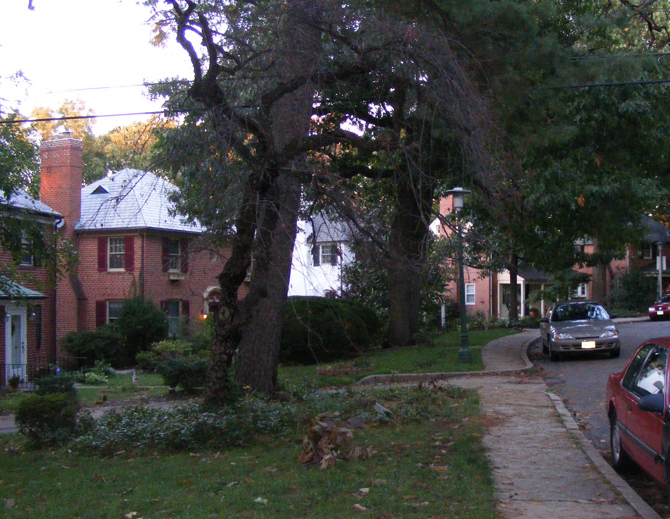 I created this image